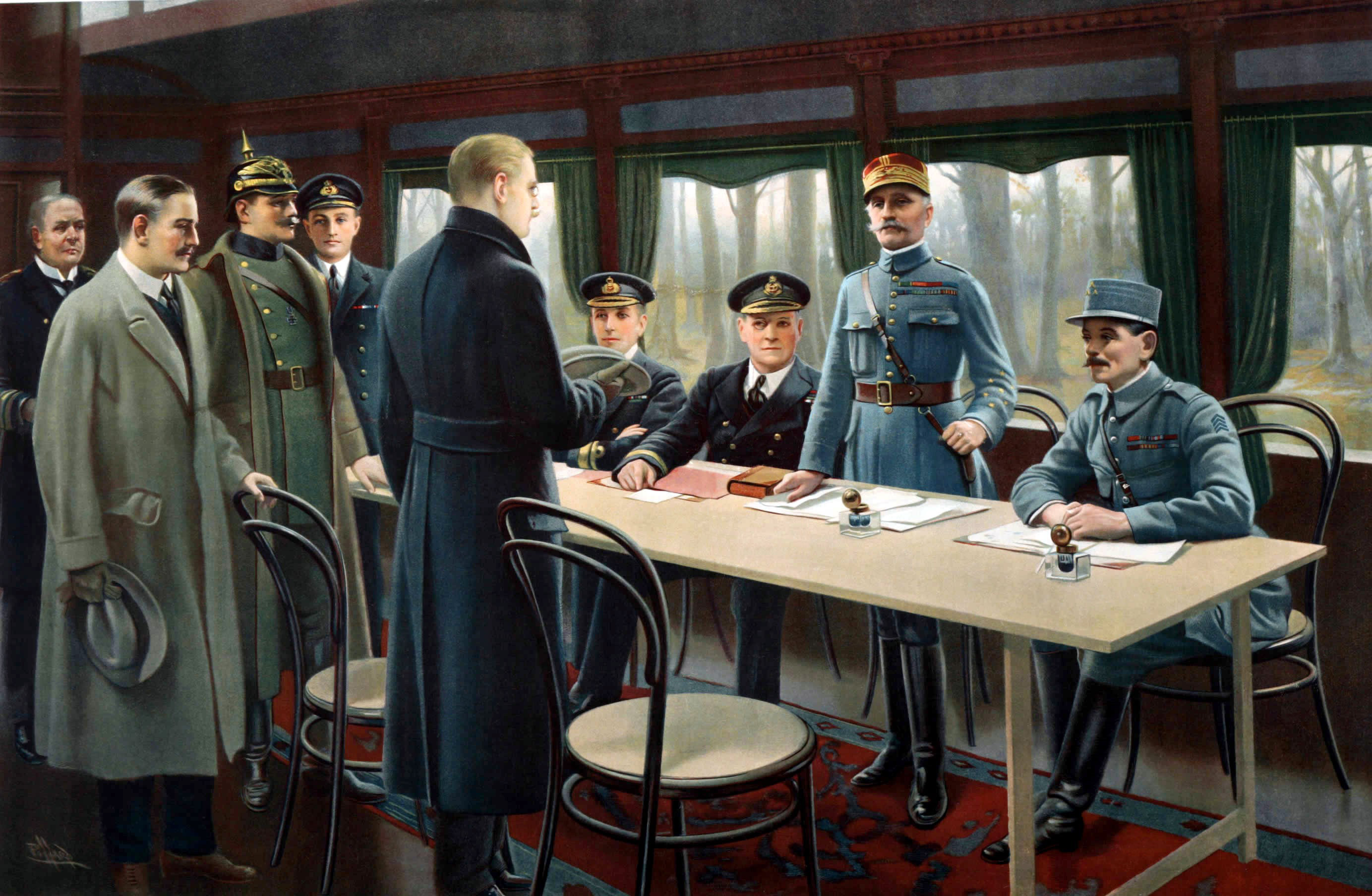 Colorized photograph, which depicts from left to right: German Admiral Ernst Vanselow, German Count Alfred von Oberndorff (1870 - 1963) of the Foreign Ministry, German army general Detlof von Winterfeldt, British Royal Navy Captain Jack Marriott (Naval Assistant to the First Sea Lord), Matthias Erzberger, head of the German delegation Center party member of the Reichstag (1875 - 1921), who was later murdered by Freikorps rightists for his role in the Armistice, British Rear-Admiral George Hope (Deputy First Sea Lord), British Admiral of the Fleet Sir Rosslyn Wemyss (First Sea Lord), Marshal of France Ferdinand Foch (1851 - 1929), and French general Maxime Weygand (1867 - 1965). according to There is a signature in the left corner: Pillard. See also national trust object 836535. This image appears to be a painting, not a colourized photograph. (It might have also been published as a sepia postcard.) The probability that it is not a photograph is also indicated by the inaccurate depiction of furniture, in Maréchal Foch's 'dining car', which had a fixed-to-the-floor table and French chairs (as seen in photographs of the event). The probable inaccuracy of the depiction might be the reason for its anonymity.